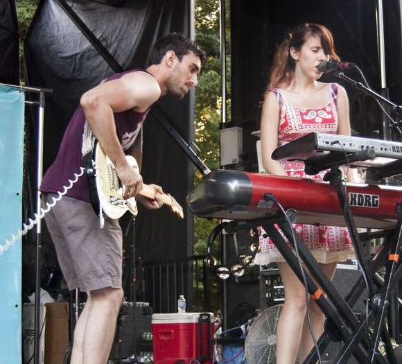 The Narrative performing on Warped Tour in 2011